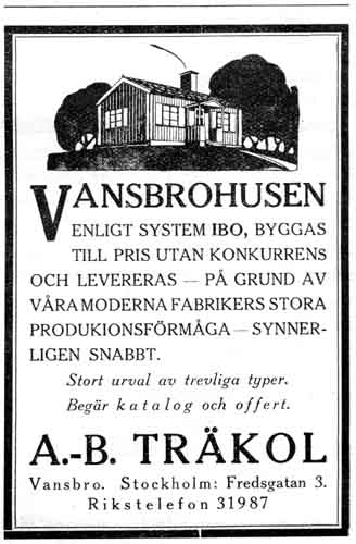 Vansbrohusen, AB Träkol, husannons från 1924.